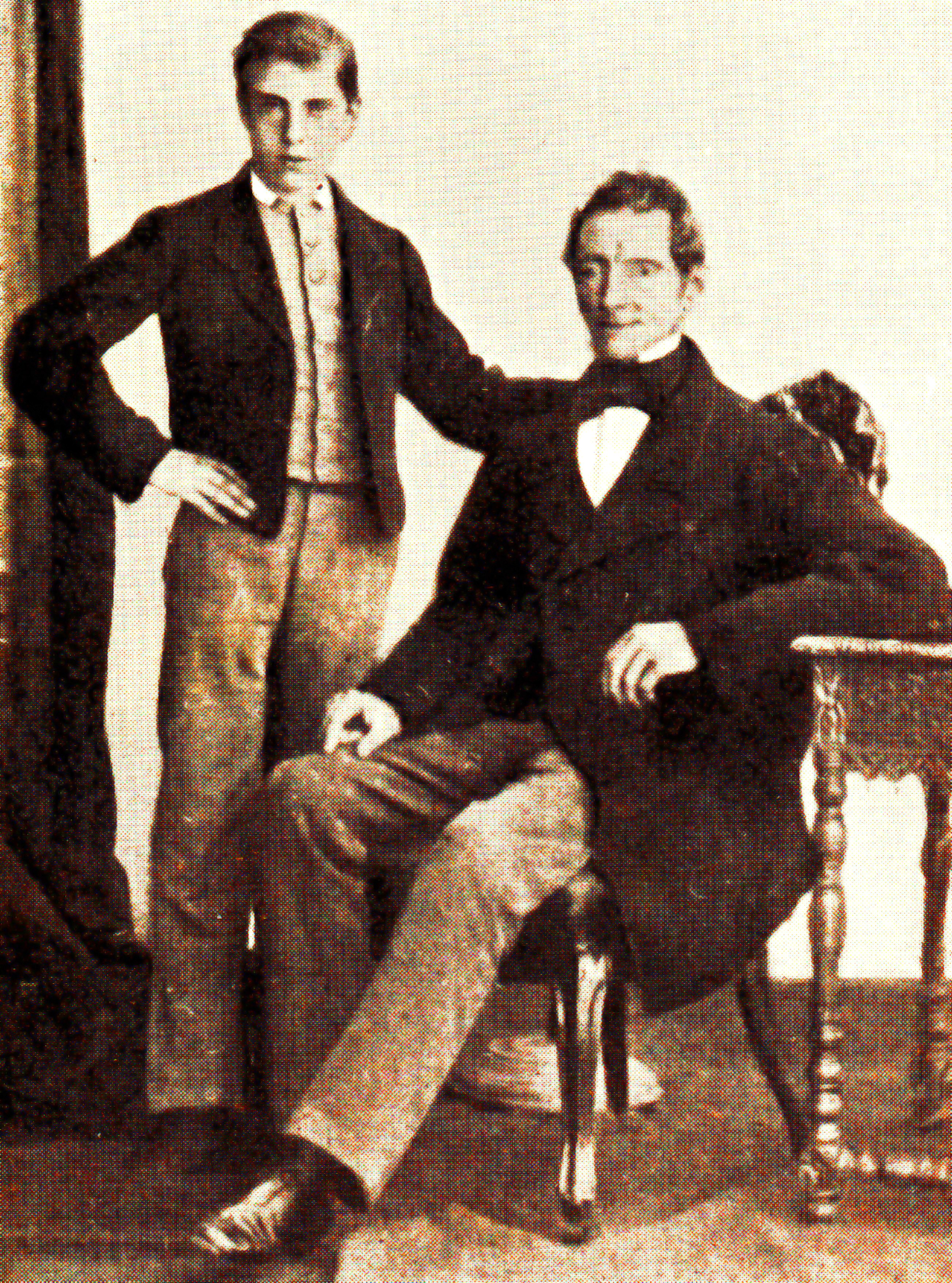 Wouter Cool